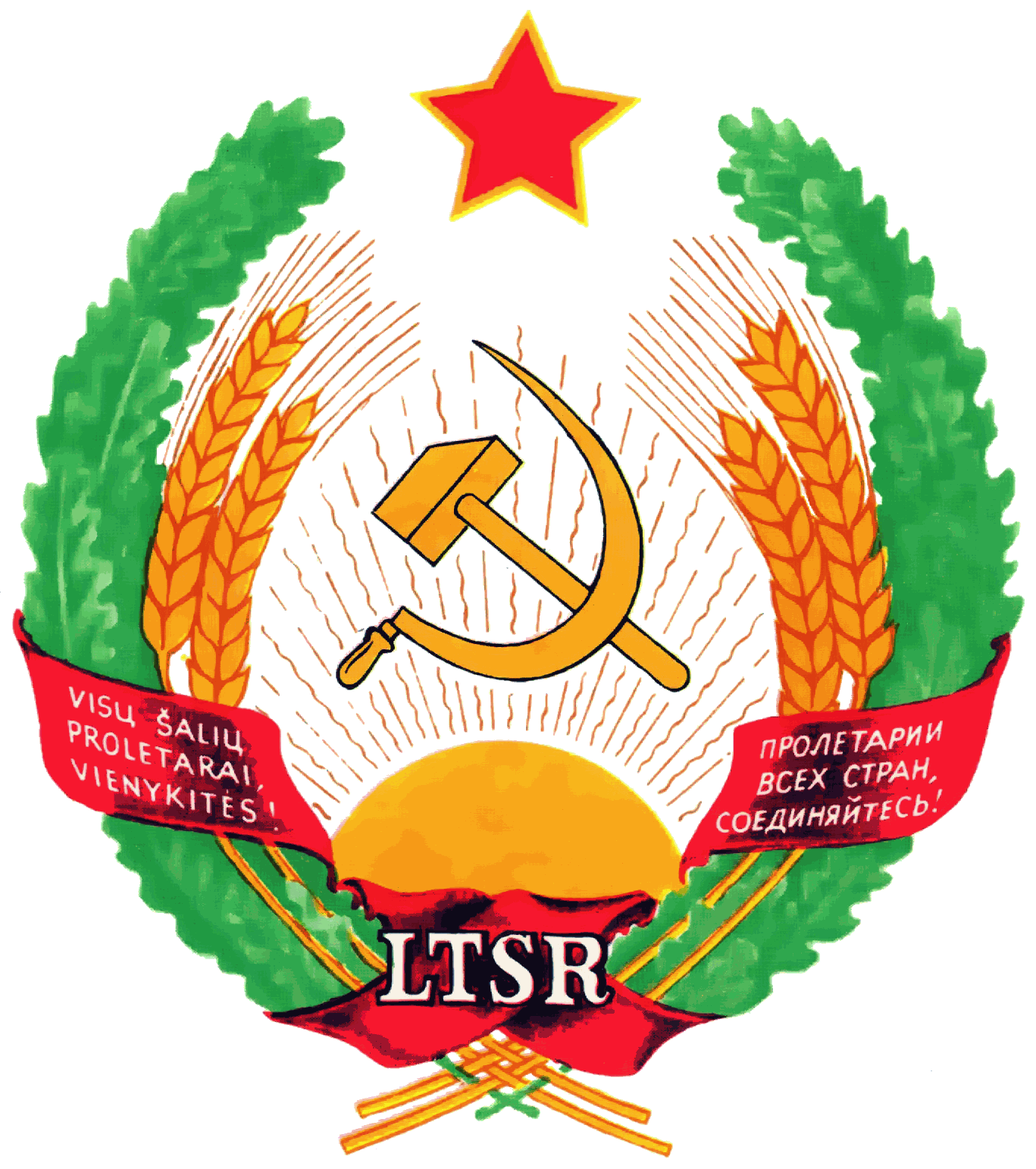 Coat_of_arms_of_Lithuanian_SSR.png